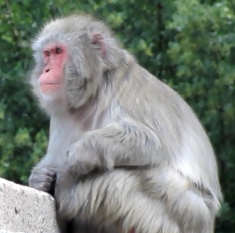 Macaca fuscata or Japanese macaque, adult male.